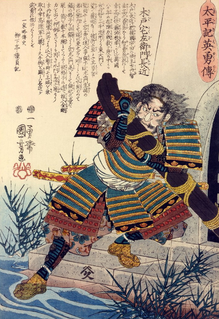 Woodblock print by artist Utagawa Kuniyoshi from the series "Heroes of the Great Peace", depicting Kido Sakuzaemon Norishige, the Samurai, forcing the gate of an enemy castle